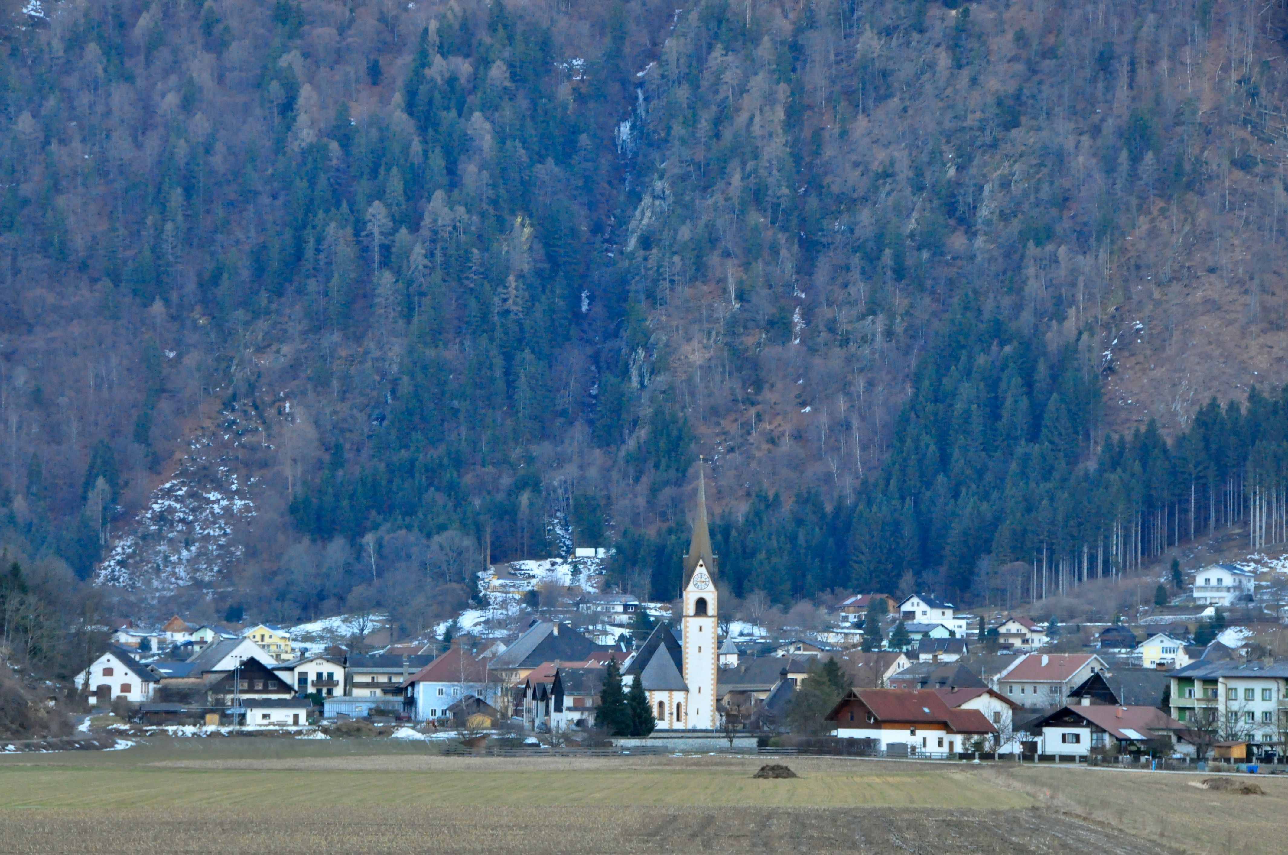 East view at the village Sachsenburg, municipality Sachsenburg, district Spittal an der Drau, Carinthia, Austria